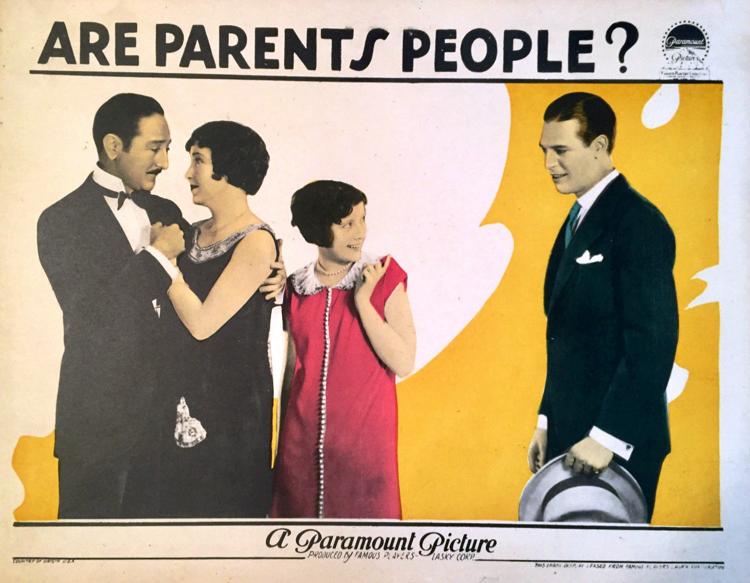 Lobby card for the 1925 film Are Parents People?. There are no copyright marks. At bottom left is Country of origin USA. At bottom right is This lobby display leased from Famous Players Lasky Corporation.